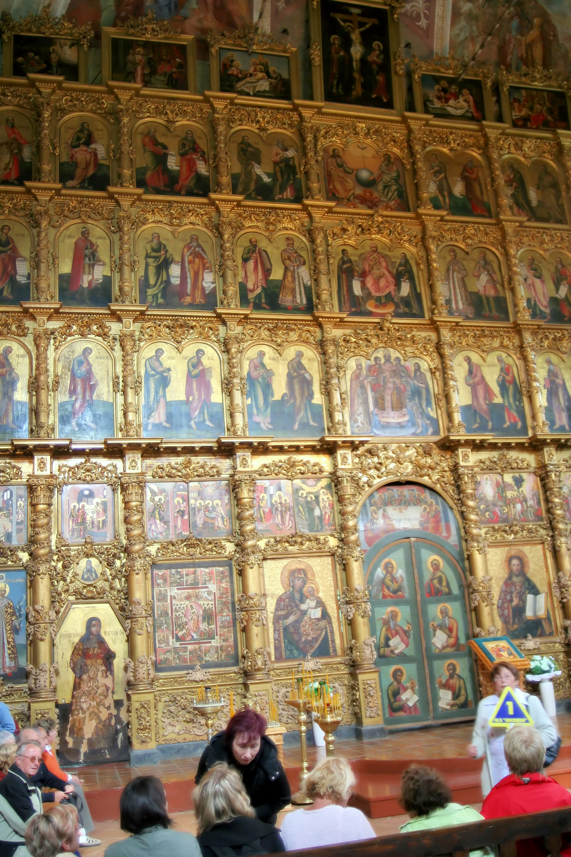 Uglich, main iconostasis of the Church of the Transfiguration (1860).